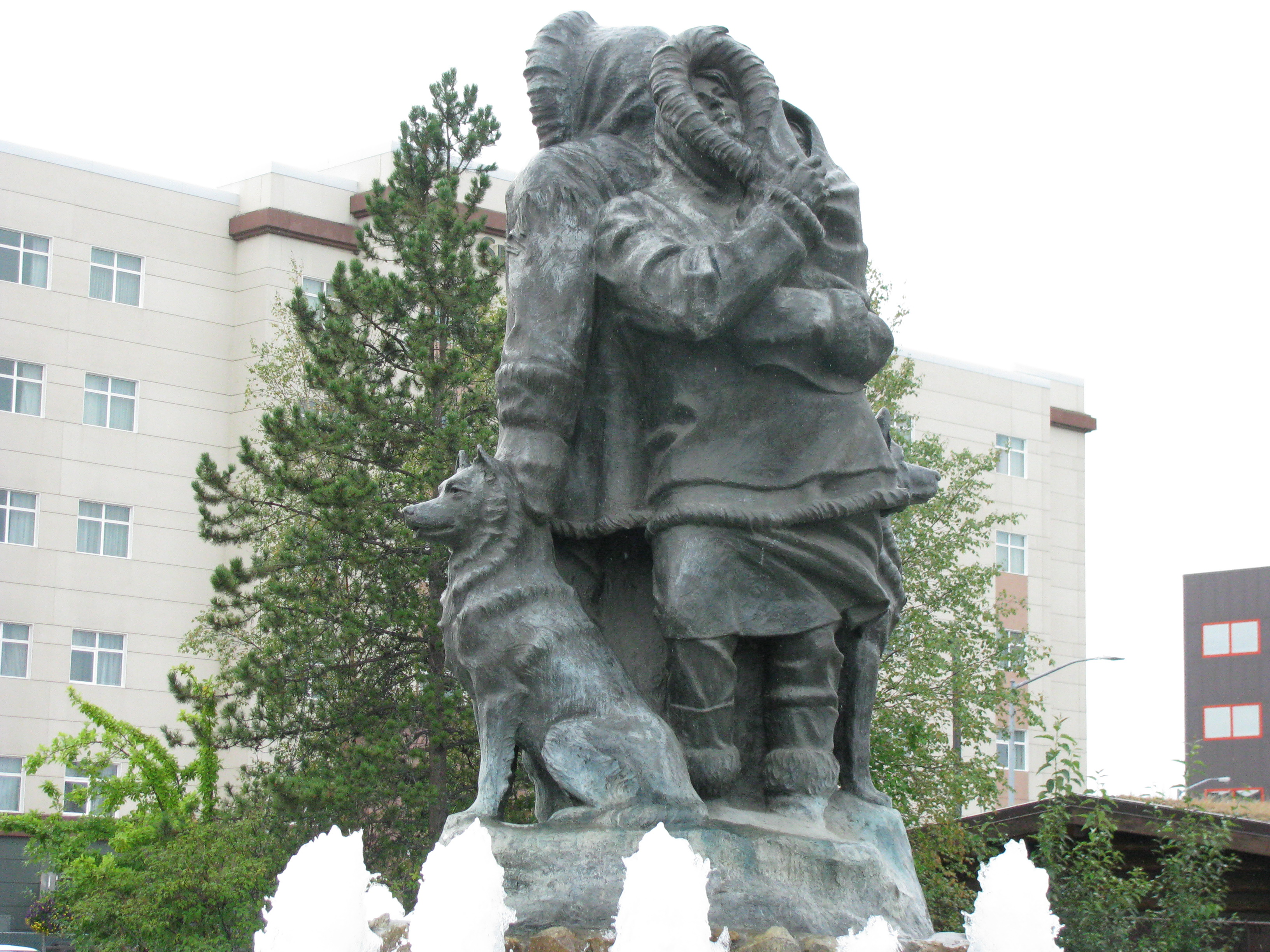 First Family Statue near Visitor Center, Fairbanks, Alaska.